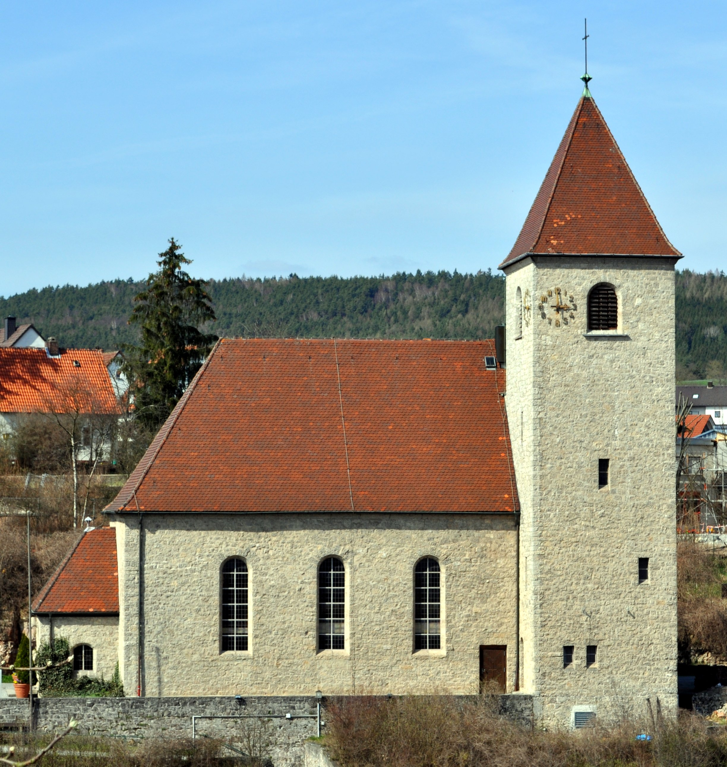 evangelic Church of Burgkunstadt